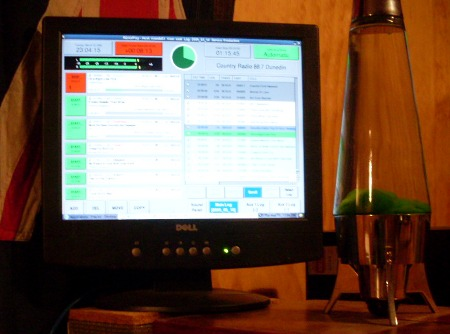 Countryradio 88.7 FM On Air Computer.jpg